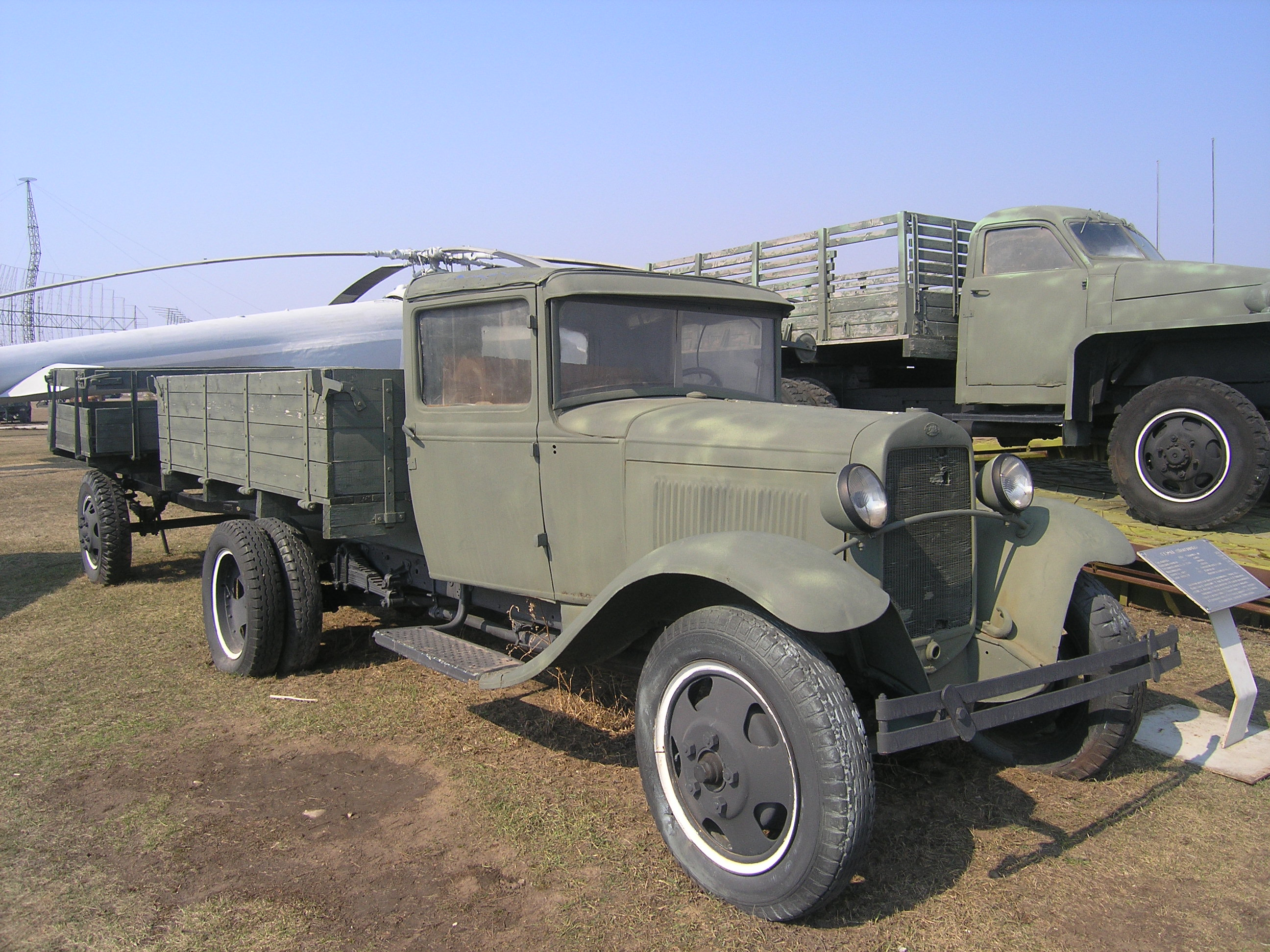 Gaz-AA in Technical museum Togliatti